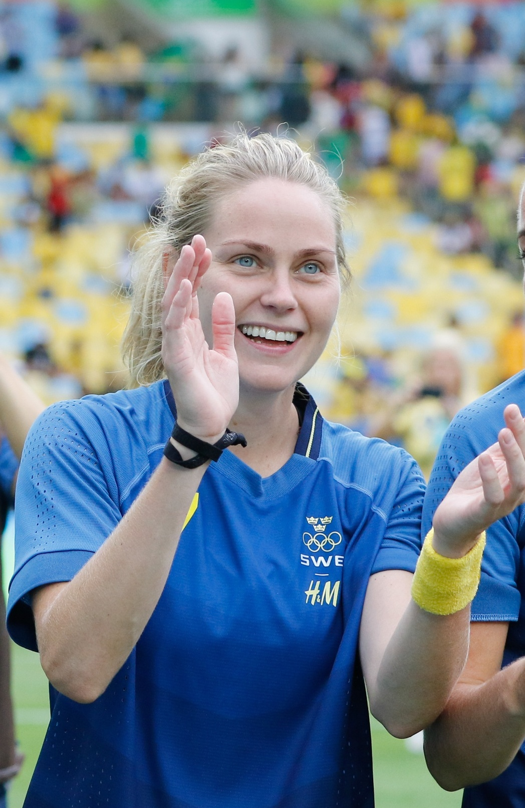 Swedish footballer Lisa Dahlkvist at Maracanã Stadium, Rio de Janeiro, Brasil, during match SWE vs USA for Rio 2016. Foto: Fernando Frazão/Agência Brasil